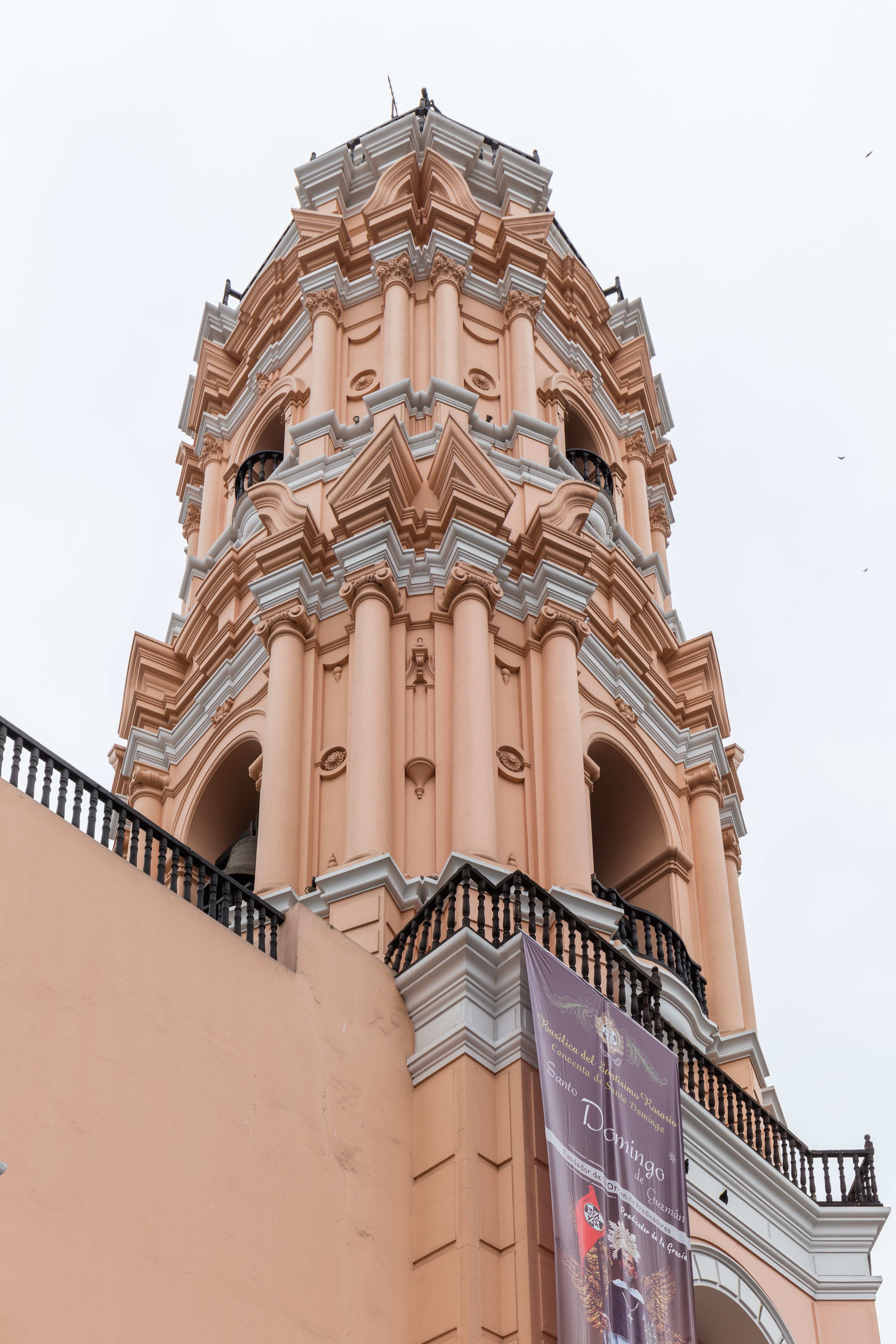 Church of St Domingo, Lima, Peru